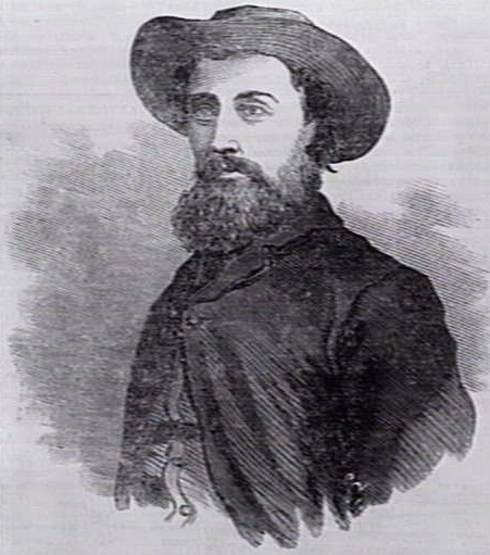 Portrait of bushranger Fred Lowry.